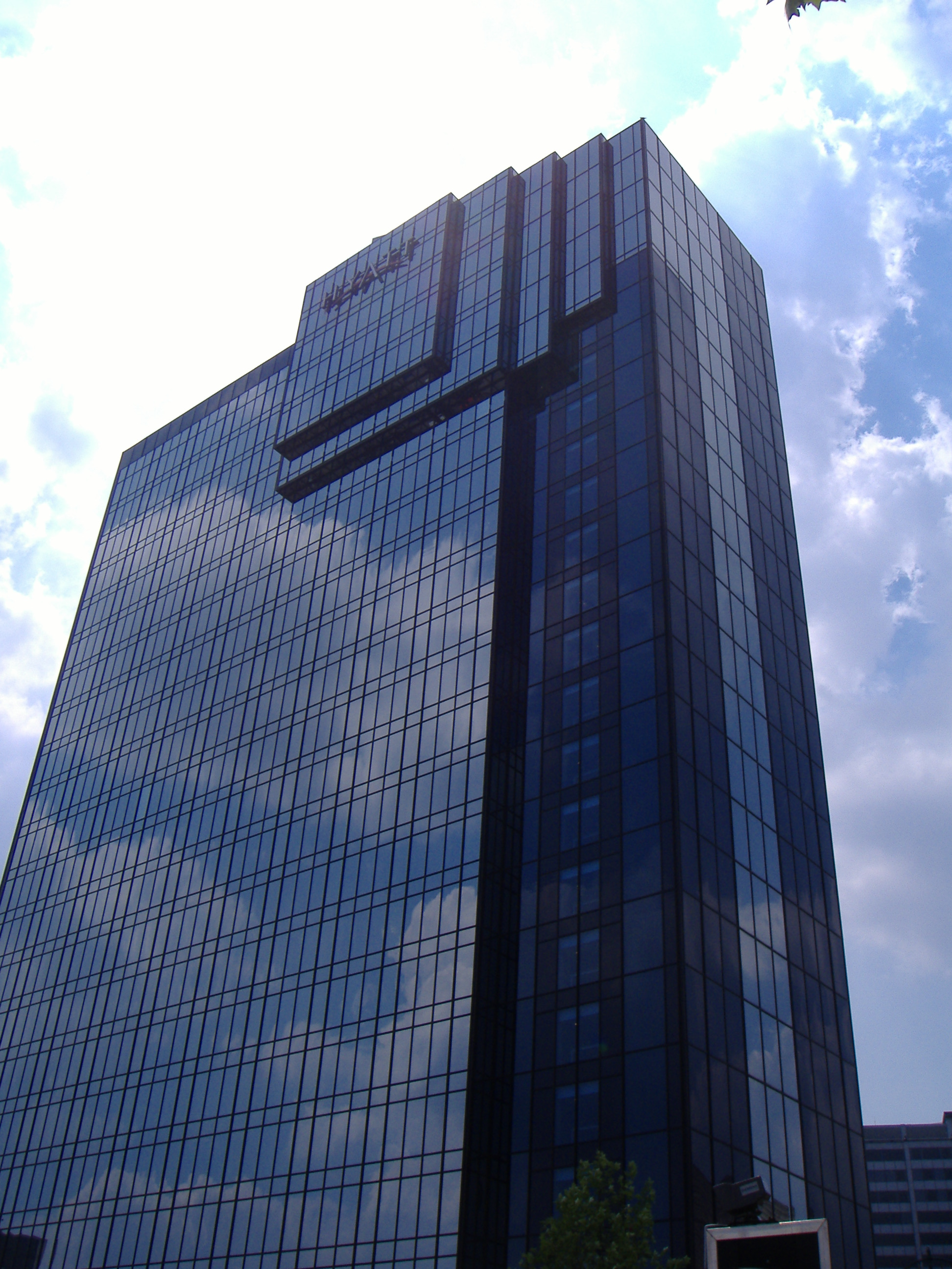 Hyatt Regency Hotel Birmingham on Broad Street, Birmingham, United Kingdom.